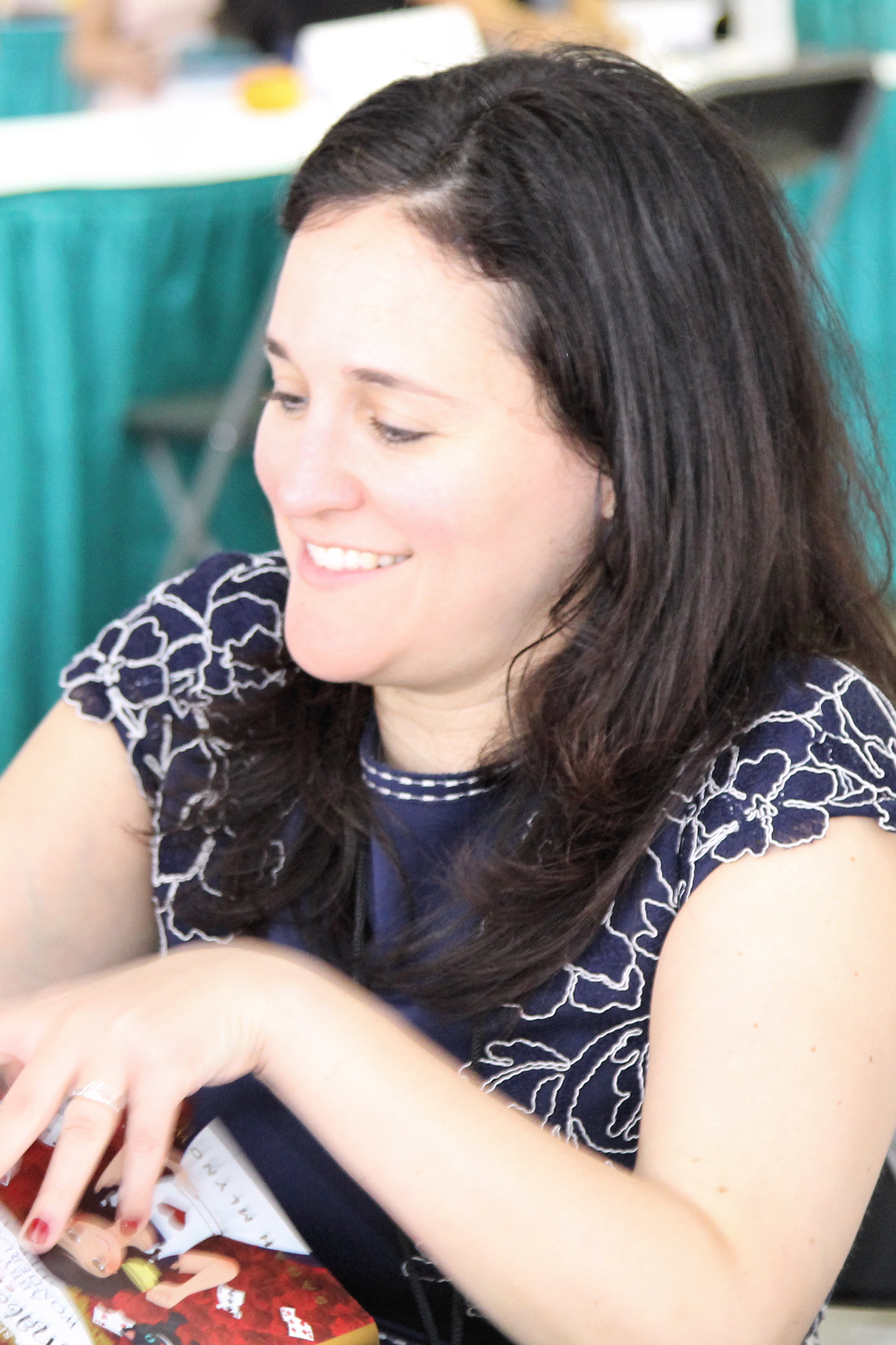 Author Sarah Mlynowski at the 2017 Texas Book Festival.